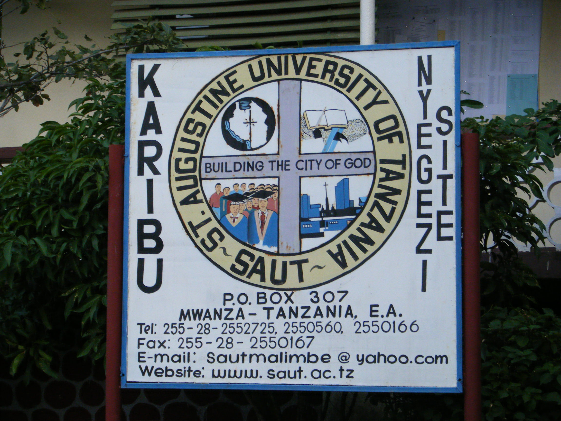 Signboard of St. Augustine University of Tanzania, Nyegezi-Malimbe by Mwanza, Tanzania